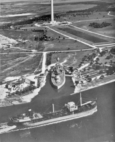 An aerial view of the San Jacinto Monument and the Battleship Texas. Another ship can be seen on the body of water, and buildings and trees can be seen scattered on the land.